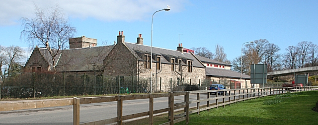 Public Library The Library occupies the former TA Drill Hall, with a modern extension beyond. To the right is the footbridge to the Library across Alexandra Road.